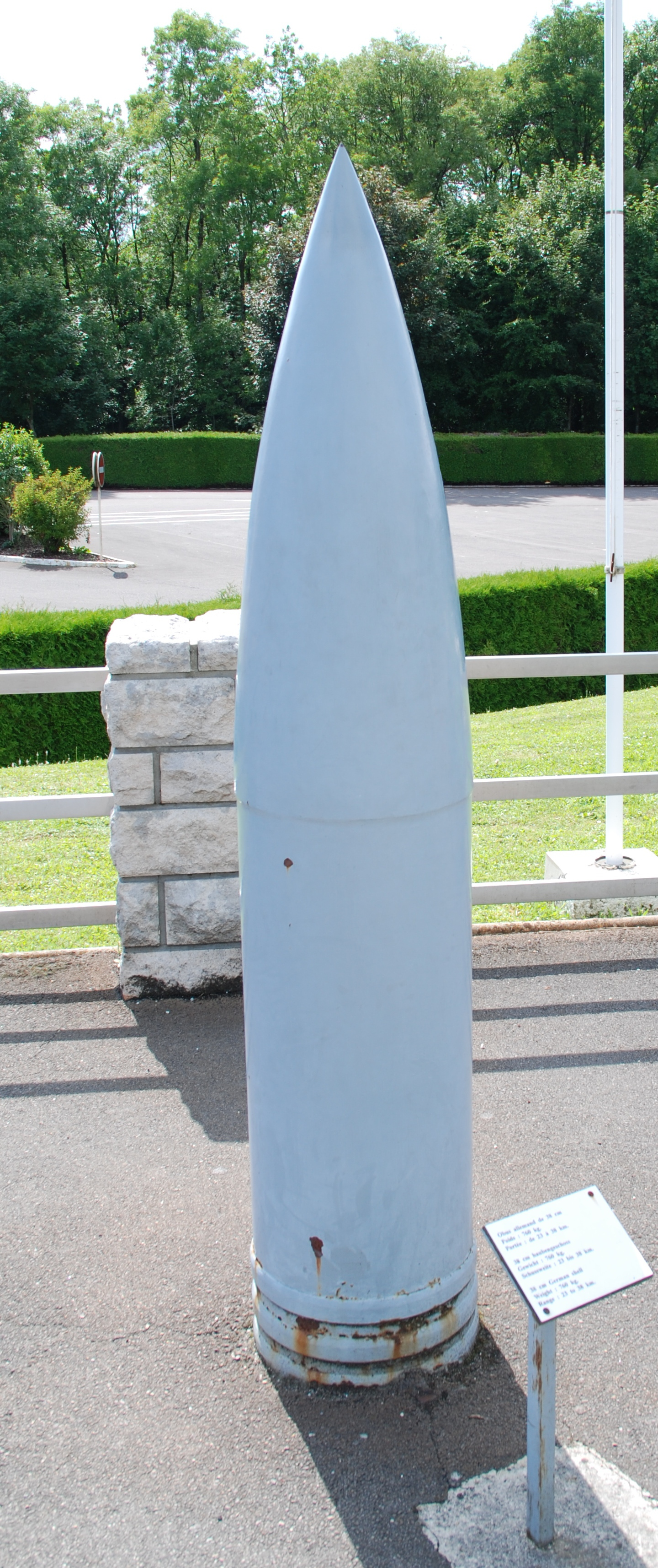 38 cm German shell, 760 kg weight, range 23 - 38 km; the Verdun Memorial, Fleury-devant-Douaumont, France